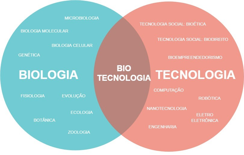 Biotechnology